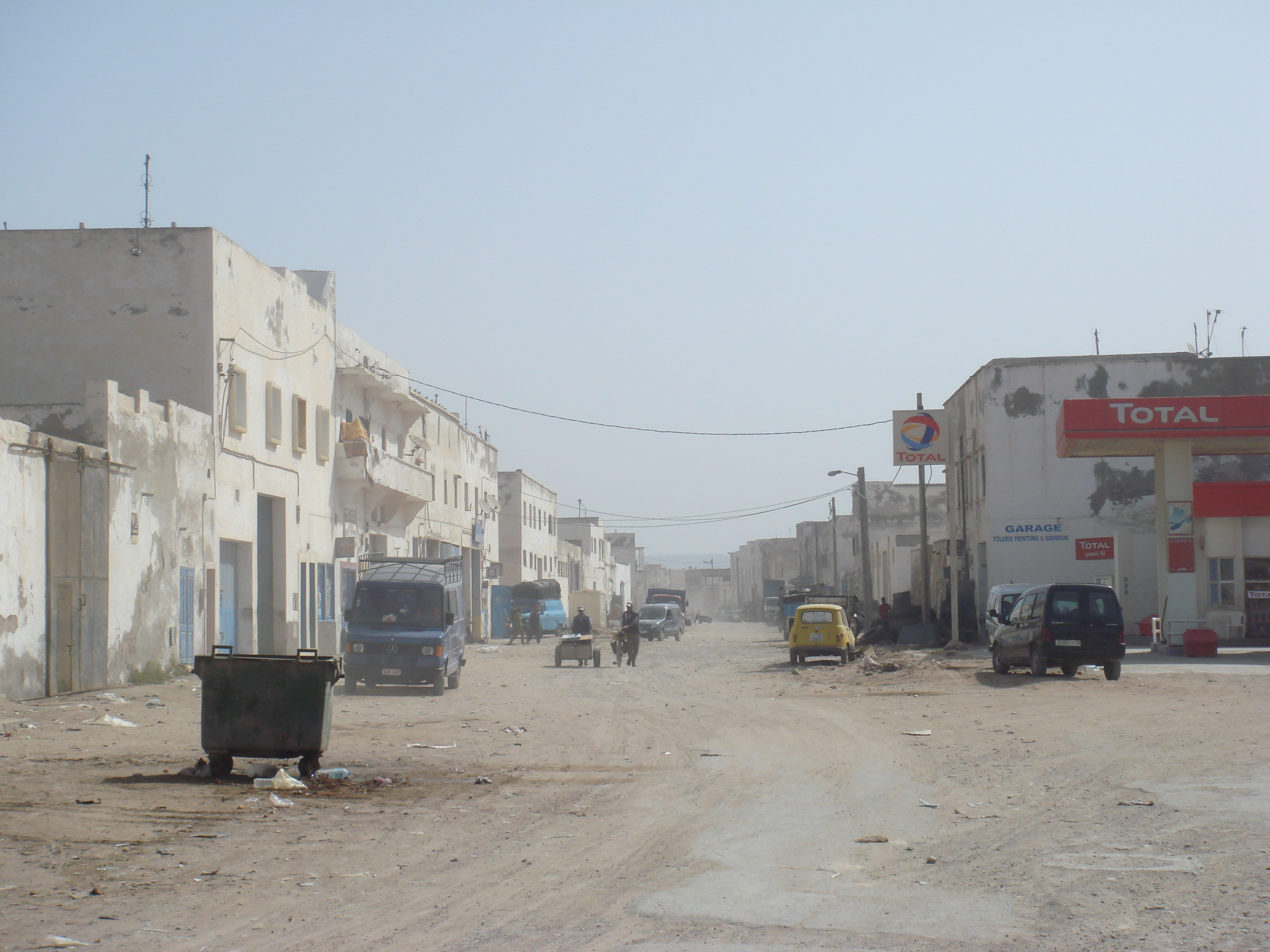 Essaouira_industrial_area